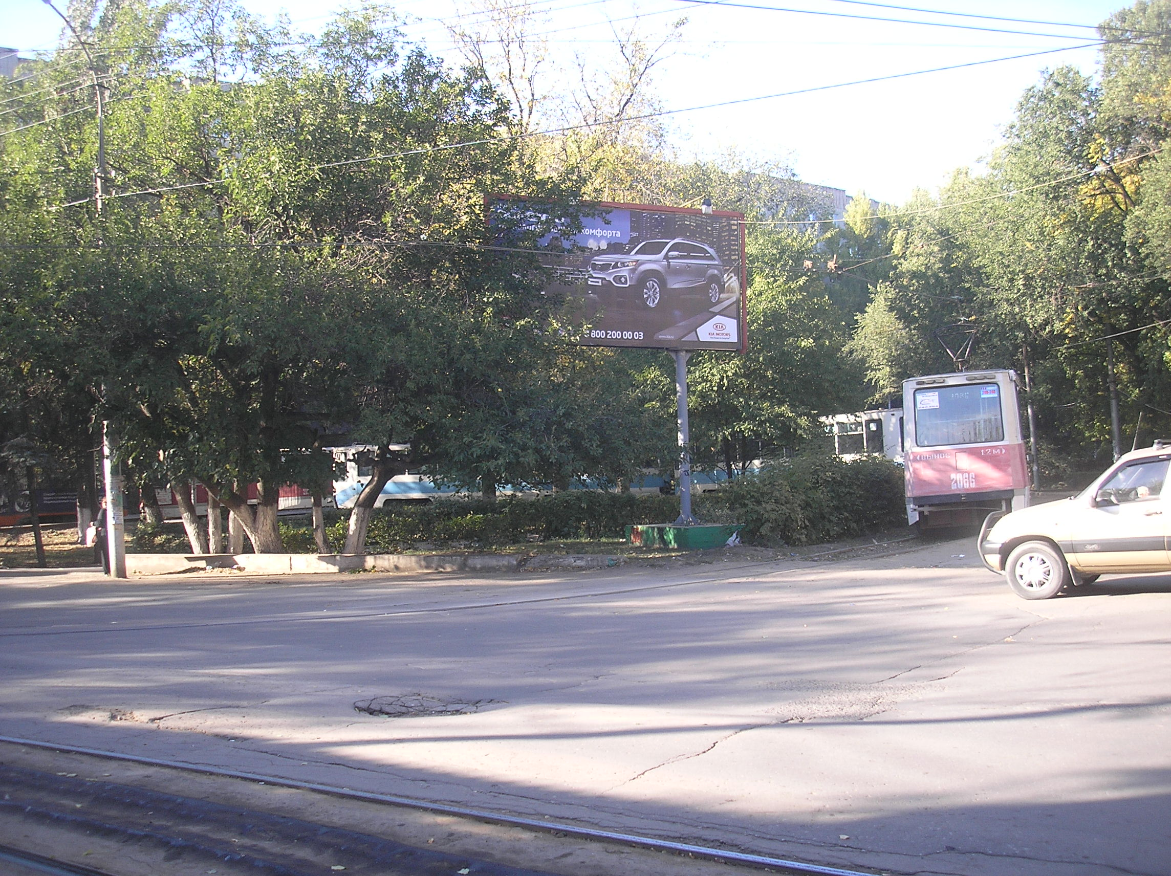 Tram ring near Detskiy park, Saratov, Russia.